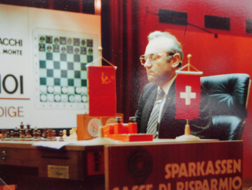 Viktor Korchnoi (waiting on Karpov), World Chess Championship 1981 in Meran (before the first game).